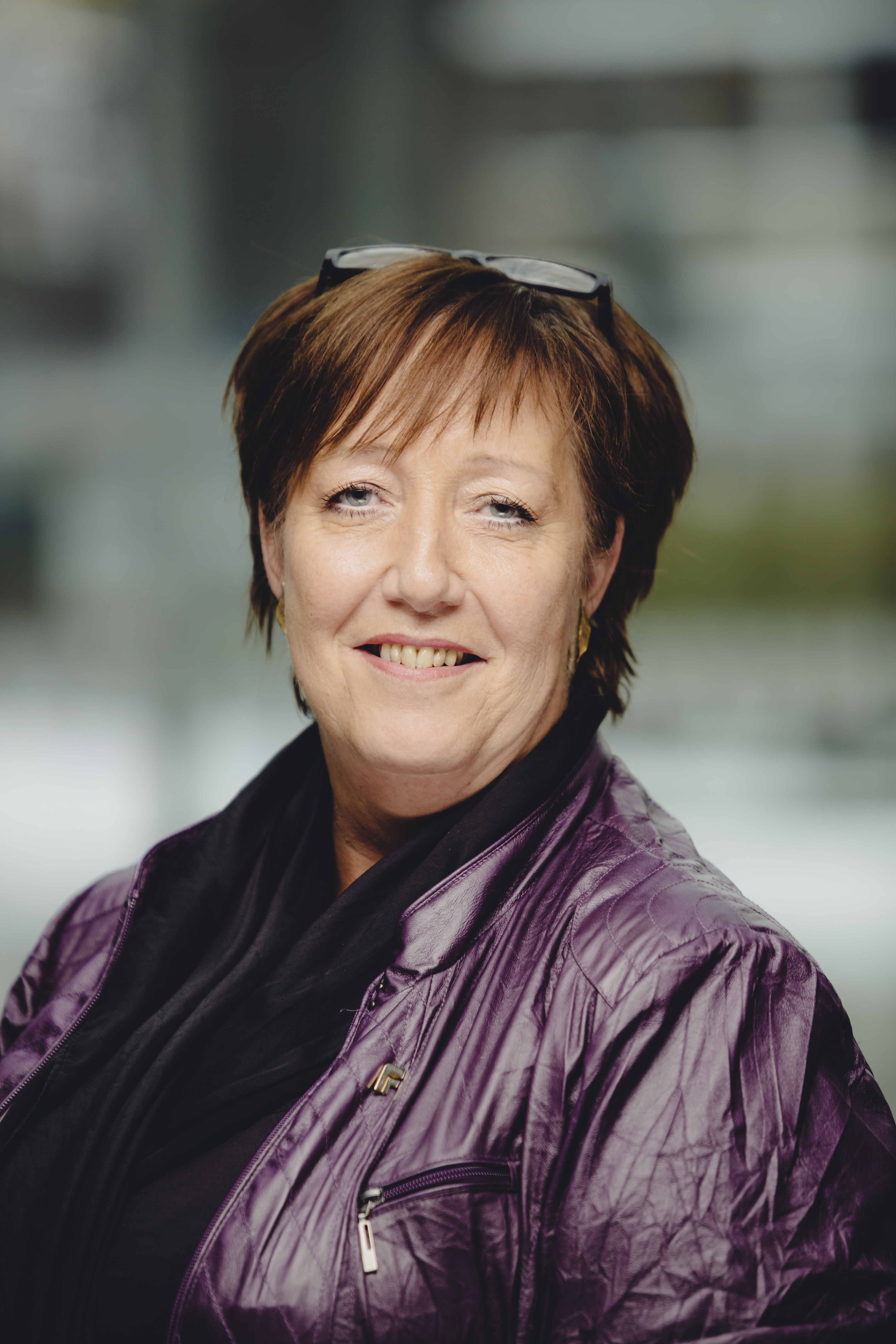 Anni Skogman. Foto: Marius Fiskum Bildet kan fritt lastes ned. Flere størrelser er tilgjengelige i menyen til høyre for bildet. Vennligst krediter fotograf. --- This image may be downloaded for commercial and non-commercial use. Various sizes of this image may be found in the menu on the right. Please credit the photographer.